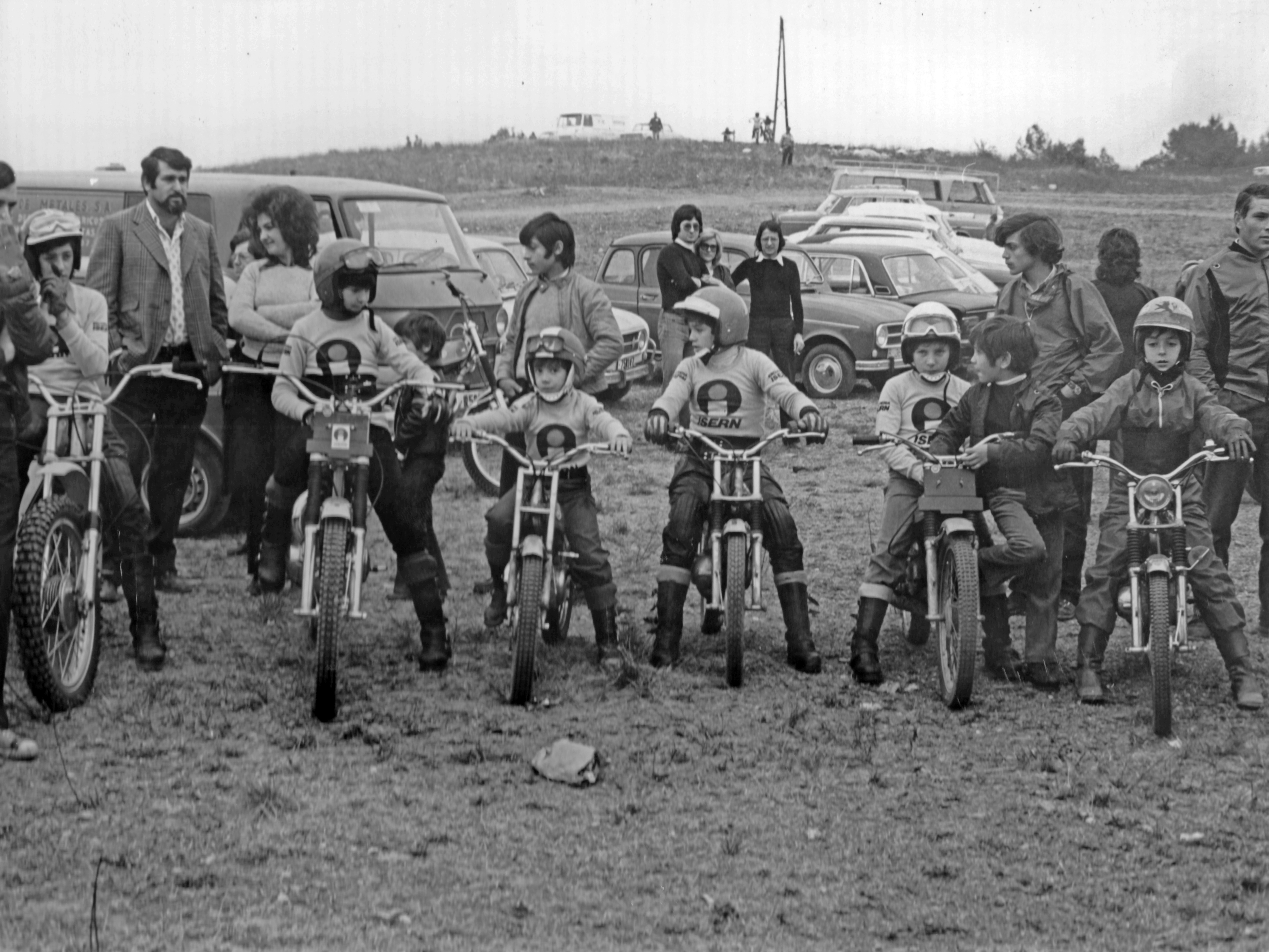 Some learners in a children's course. Third from left is Marcel·lí Corchs.